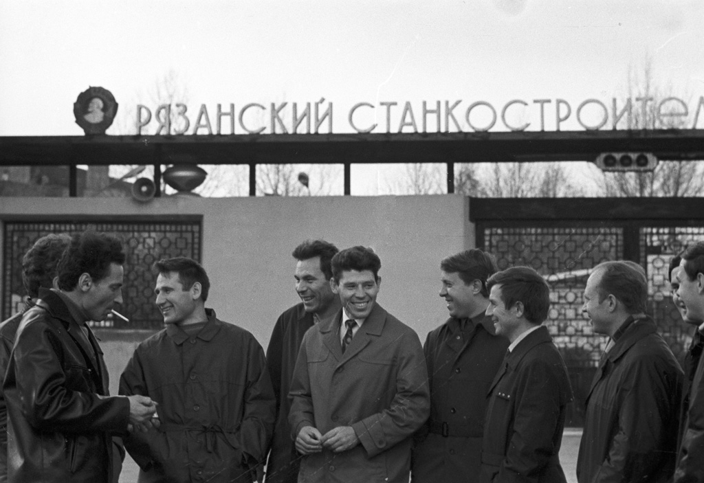 “Workers of Ryazan machine tool plant”. Workers of the Ryazan machine tool plant sharing a moment after their working shift.